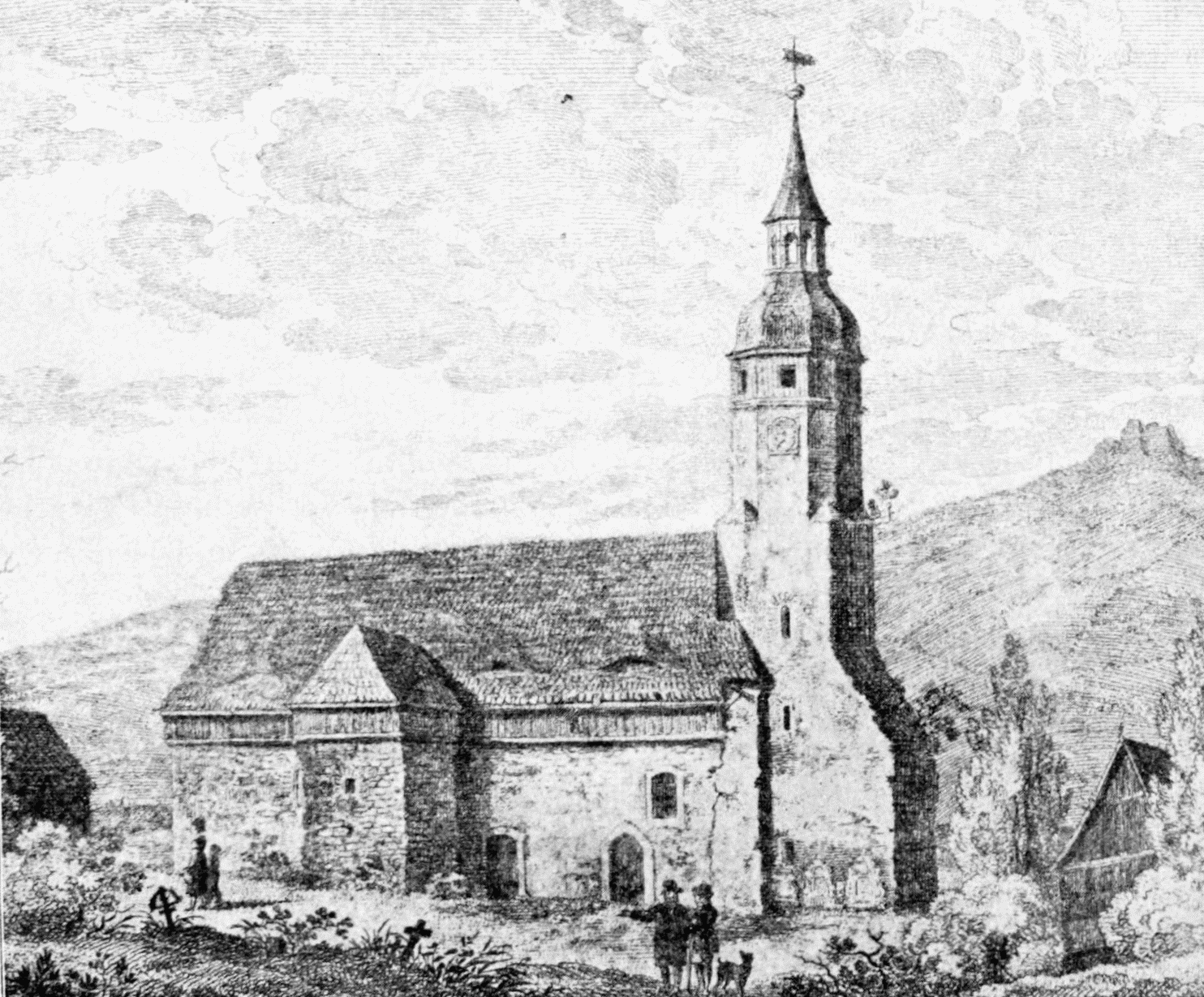 Old church of Oberoderwitz